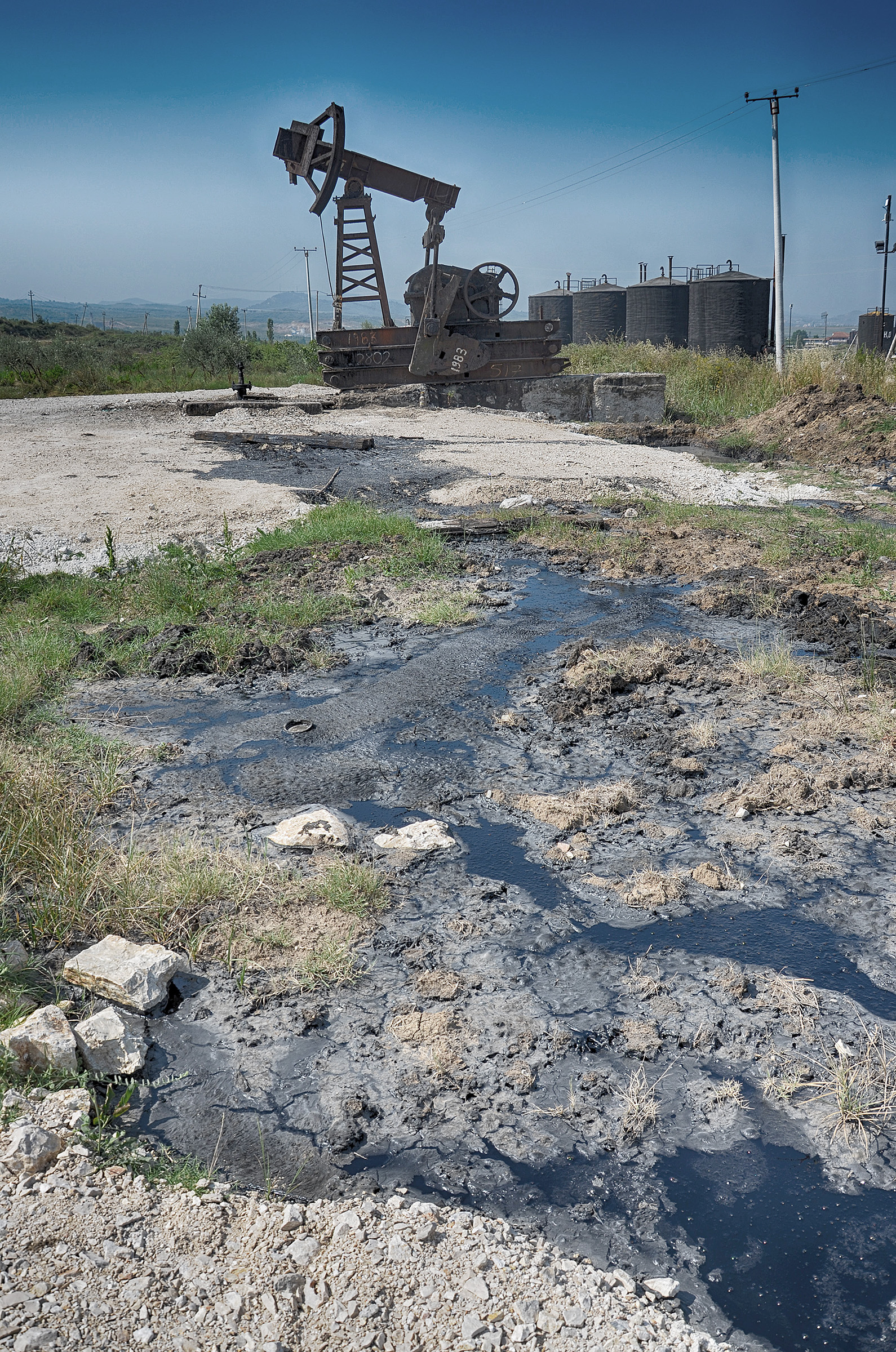 Oil field near Patos, Albania